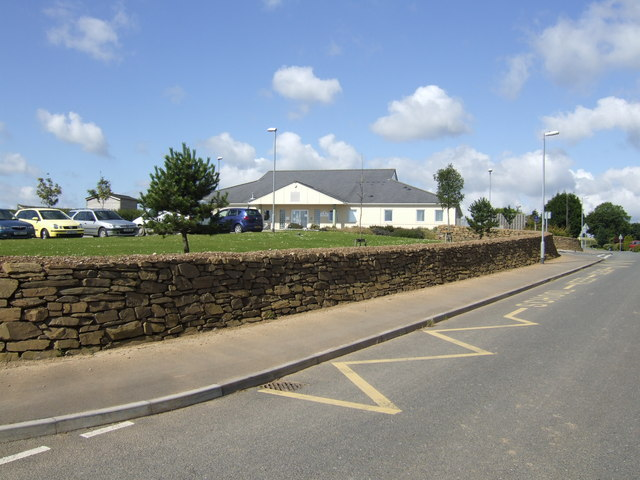 Braddock Primary School, East Taphouse A newly built school (2003) which serves the scattered villages and hamlets between Dobwalls and Lostwithiel.